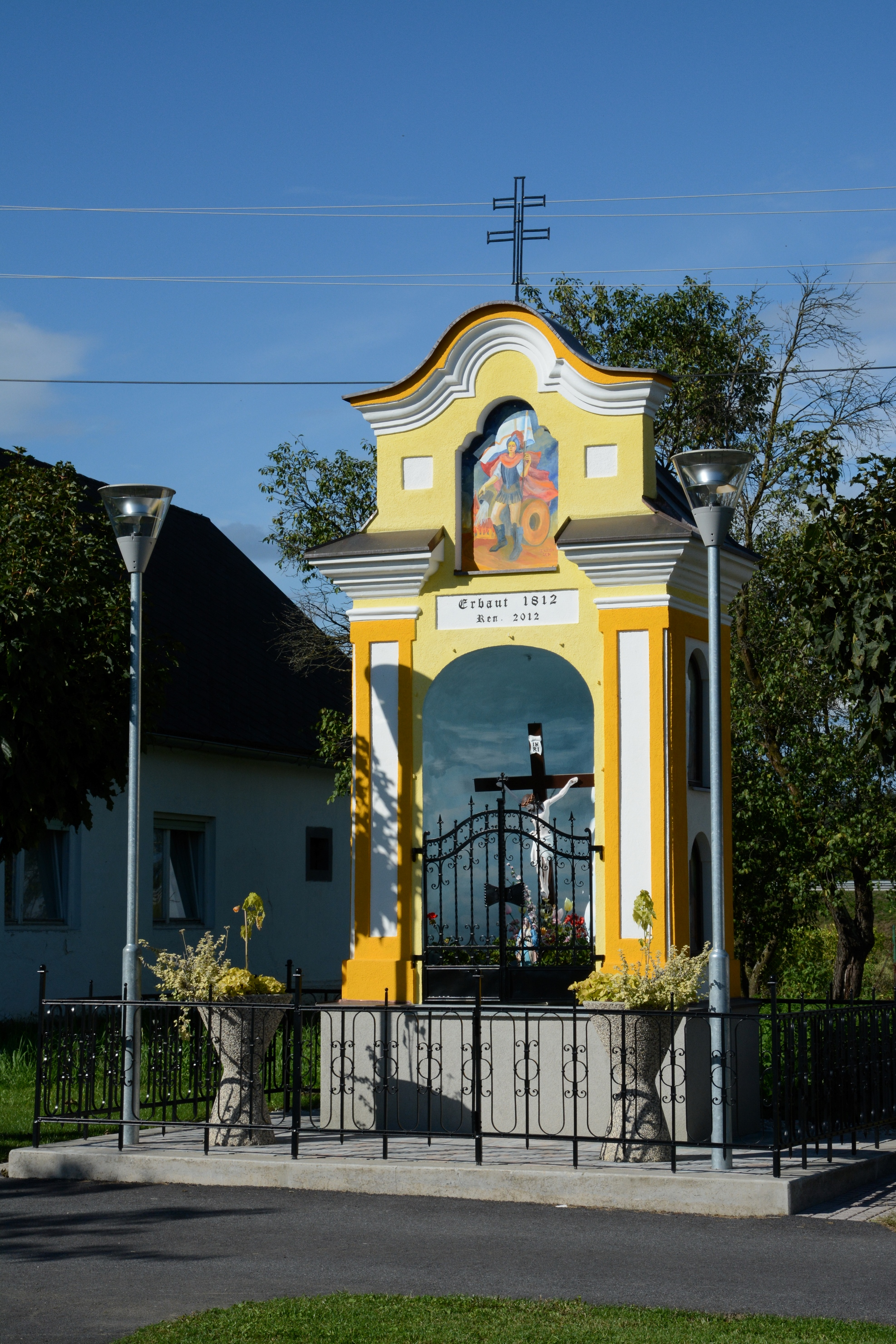 Chapel Doiber